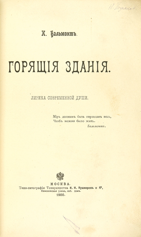 Cover of the 1900 Burning Buildings poetry collection by the Russian poet Konstantin Balmont